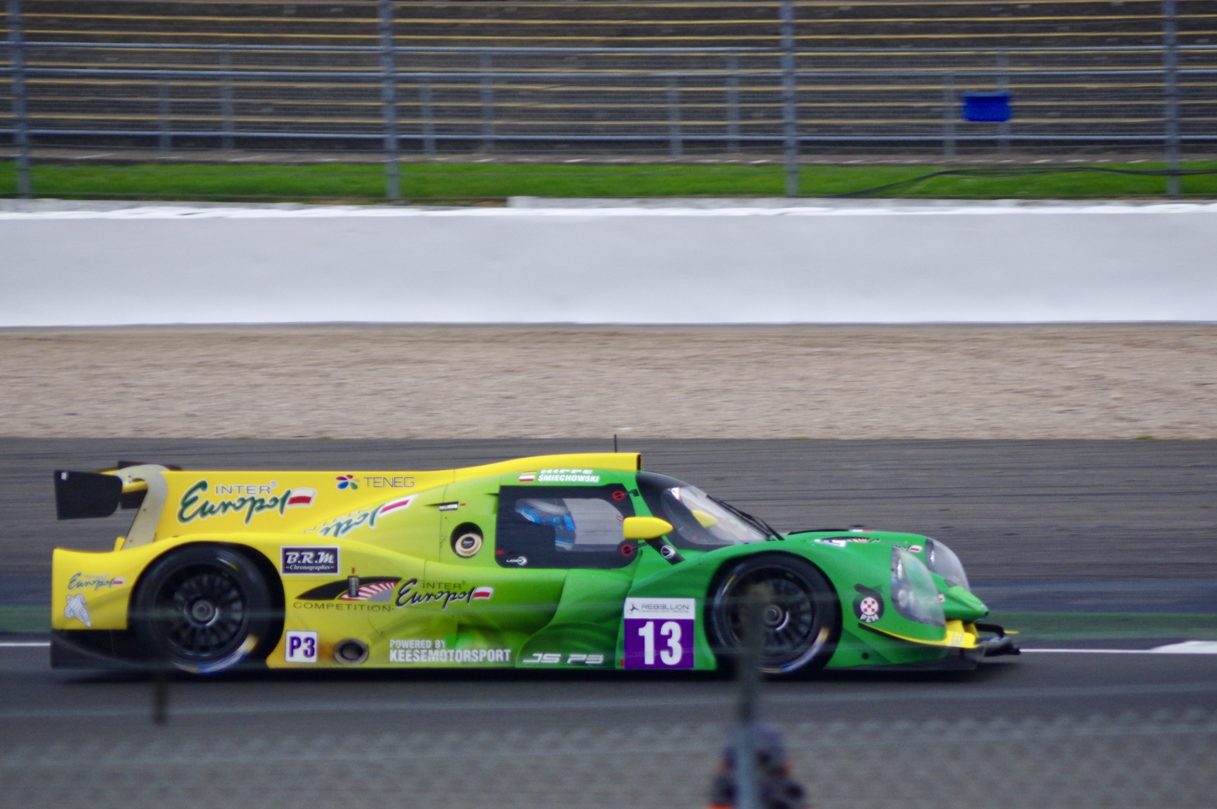 Inter Europol Competition's Ligier JSP3 Nissan Driven by Jakub Smiechowski and Martin Hippe